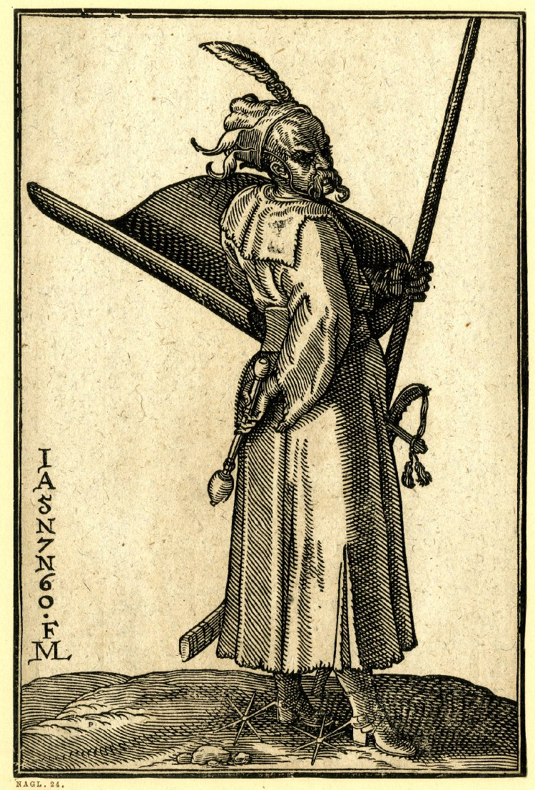 Ottoman Soldiers from contemporary European Illustrations by Melchior Lorck, 1570-83